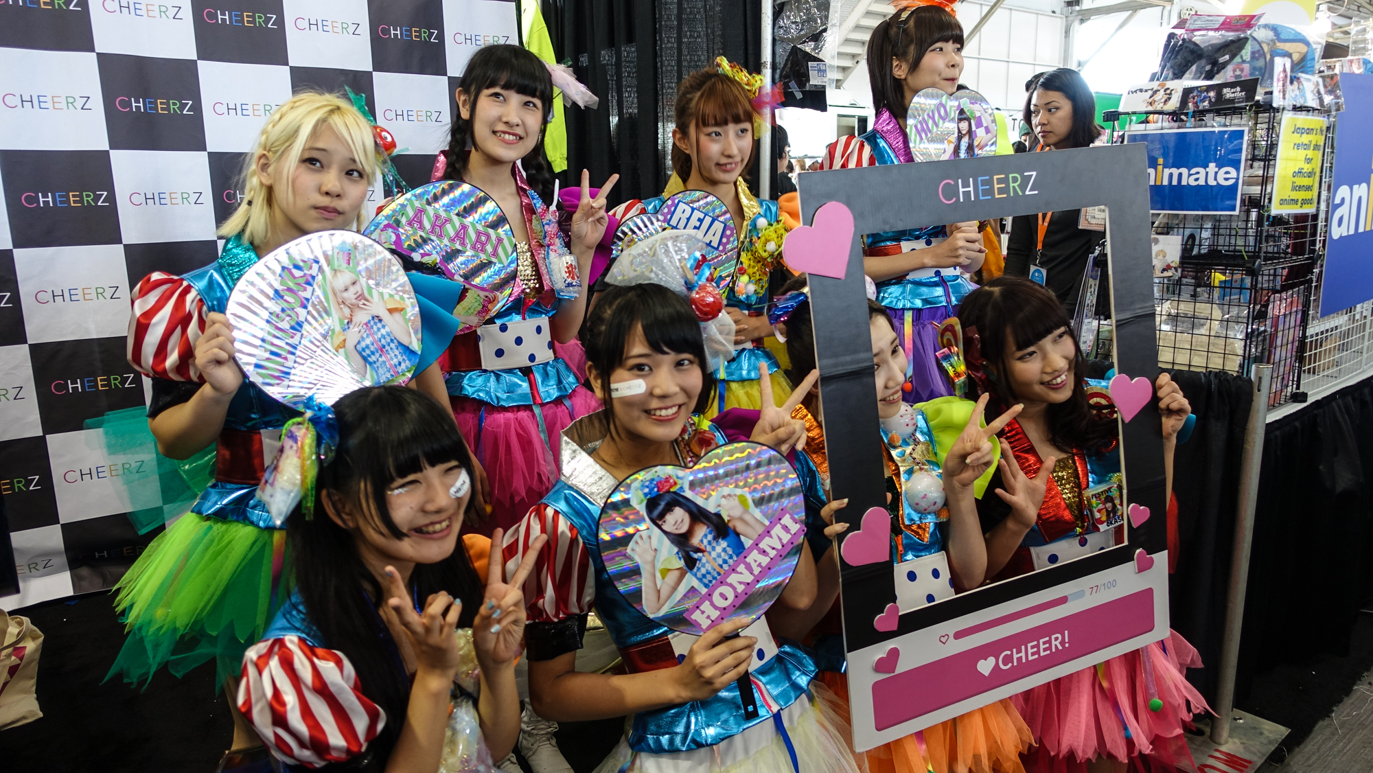 FES☆TIVE at J-pop Summit 2015